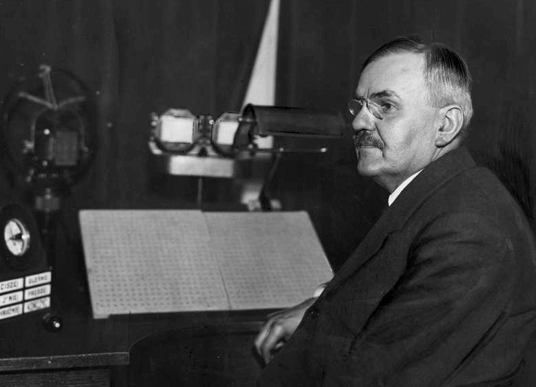 Władysław Grabski, rector of Warsaw University of Life Sciences